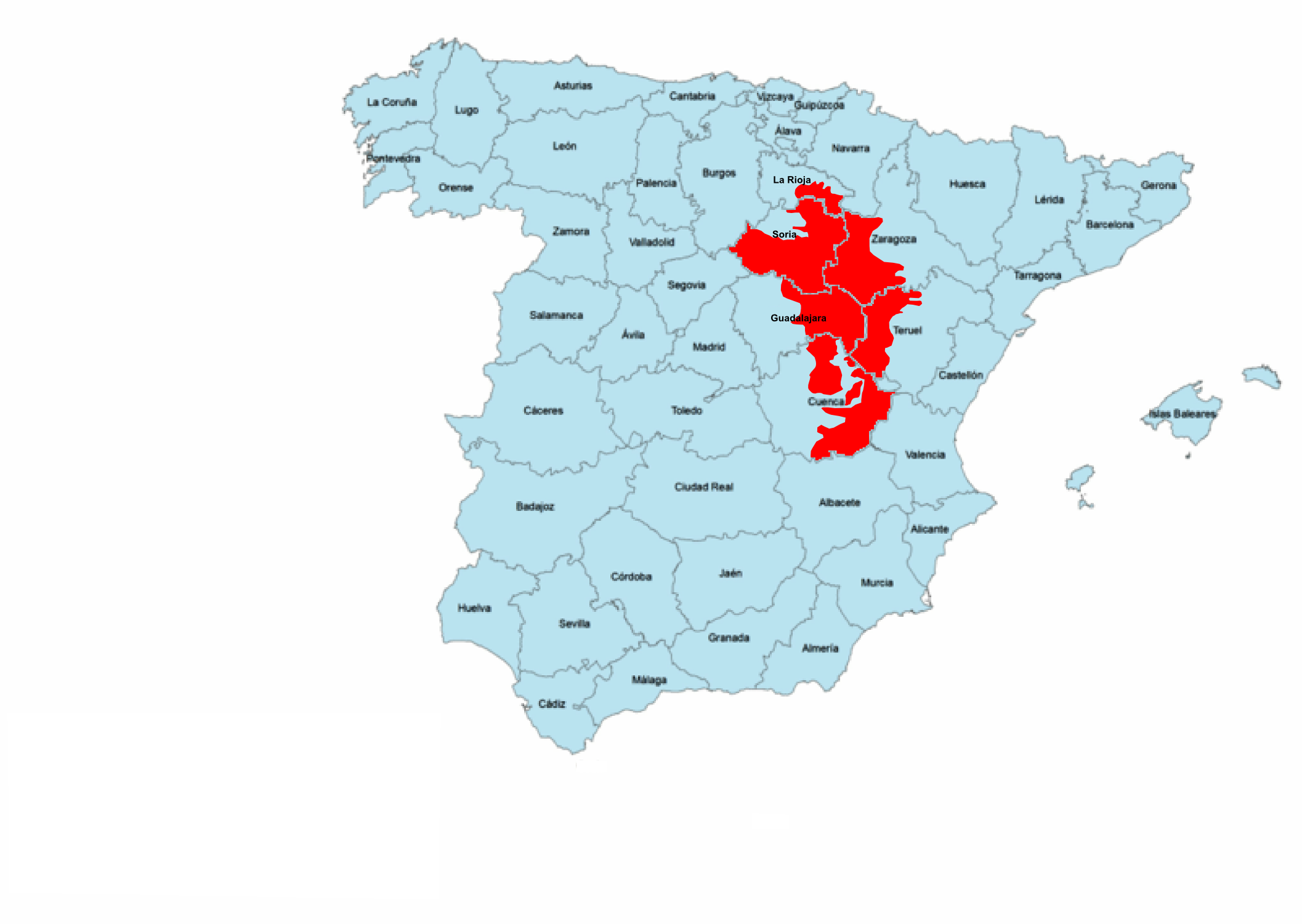 Celtiberia map.